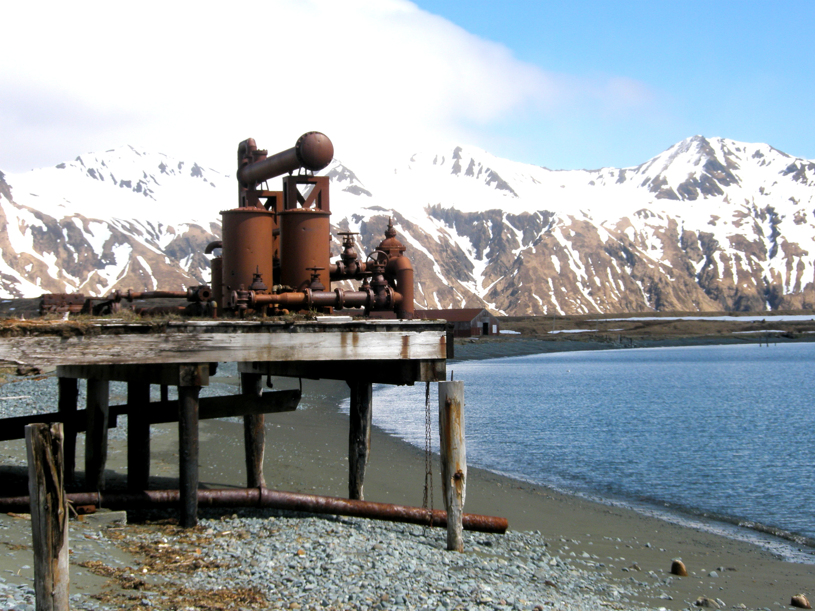 Attu Battlefield and U.S. Army and Navy Airfields on Attu